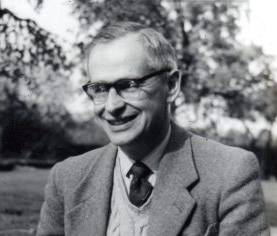 Doctor Isaac Henry Gosset, pediatrician